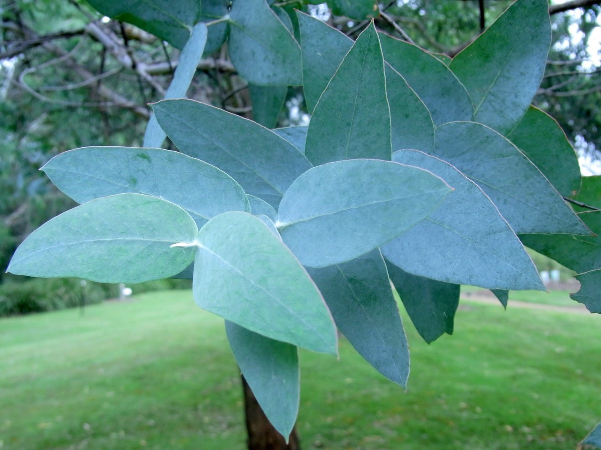 Eucalyptus kartzoffiana, Batemans Bay botanic Gardens, Australia